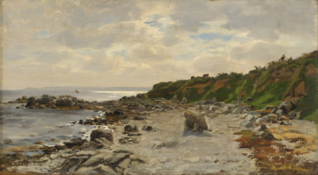 "Seashore". Oil on cardboard. 37.2 x 66.5 cm